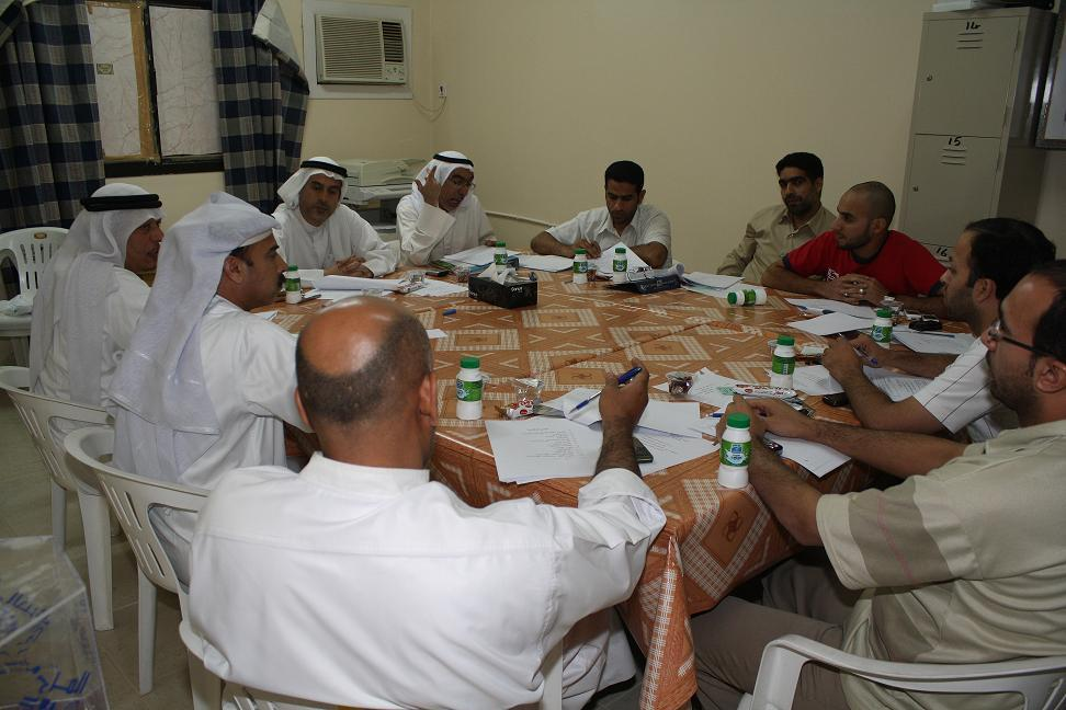 Almarkh Charity Fund Meeting